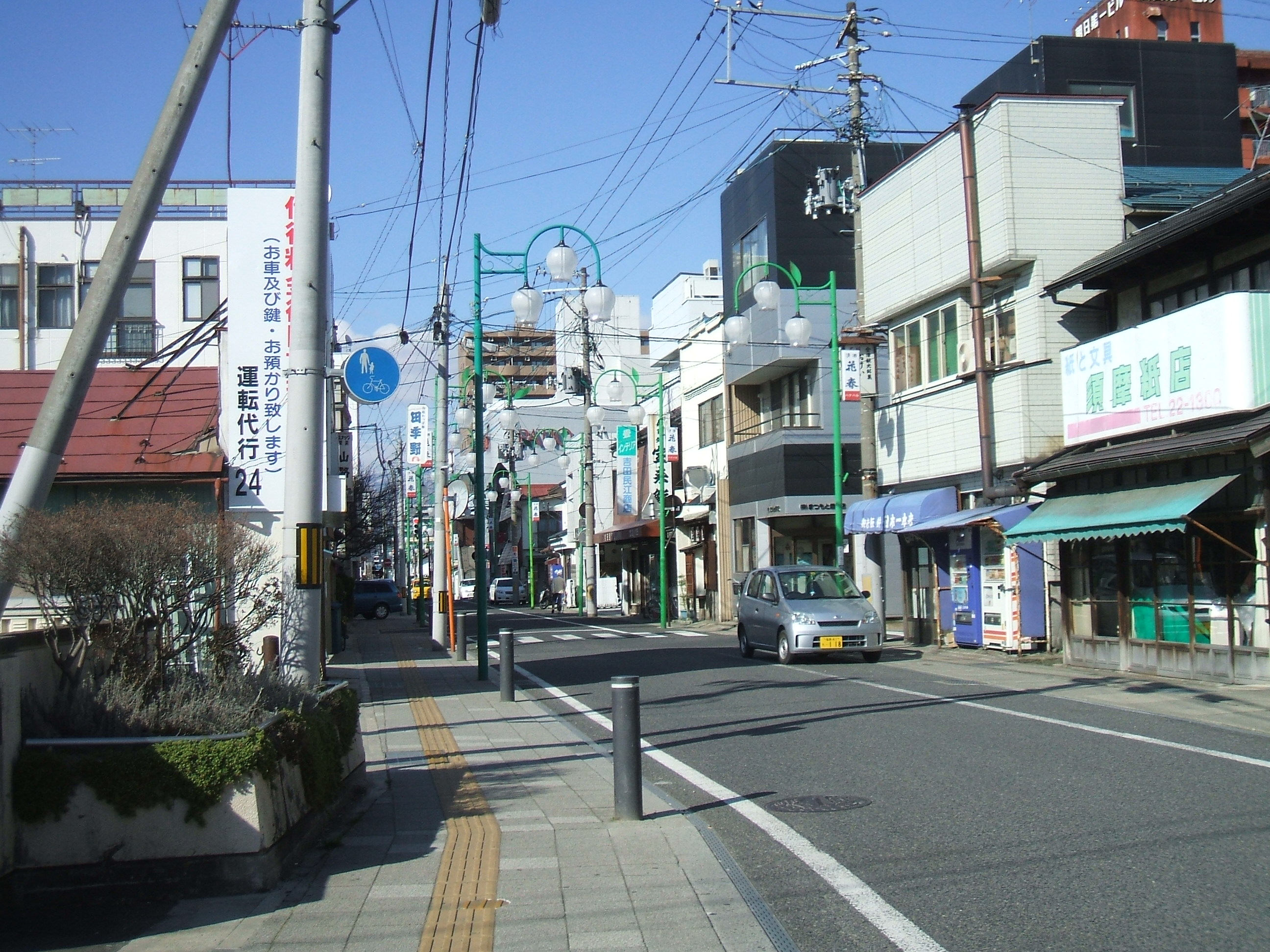 This is landscape of Koukamachi-Dori Street at Aizuwakamatsu, Fukushima.